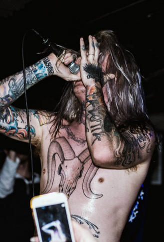 Ghostemane live at Adelaide Hall November 18th, 2017